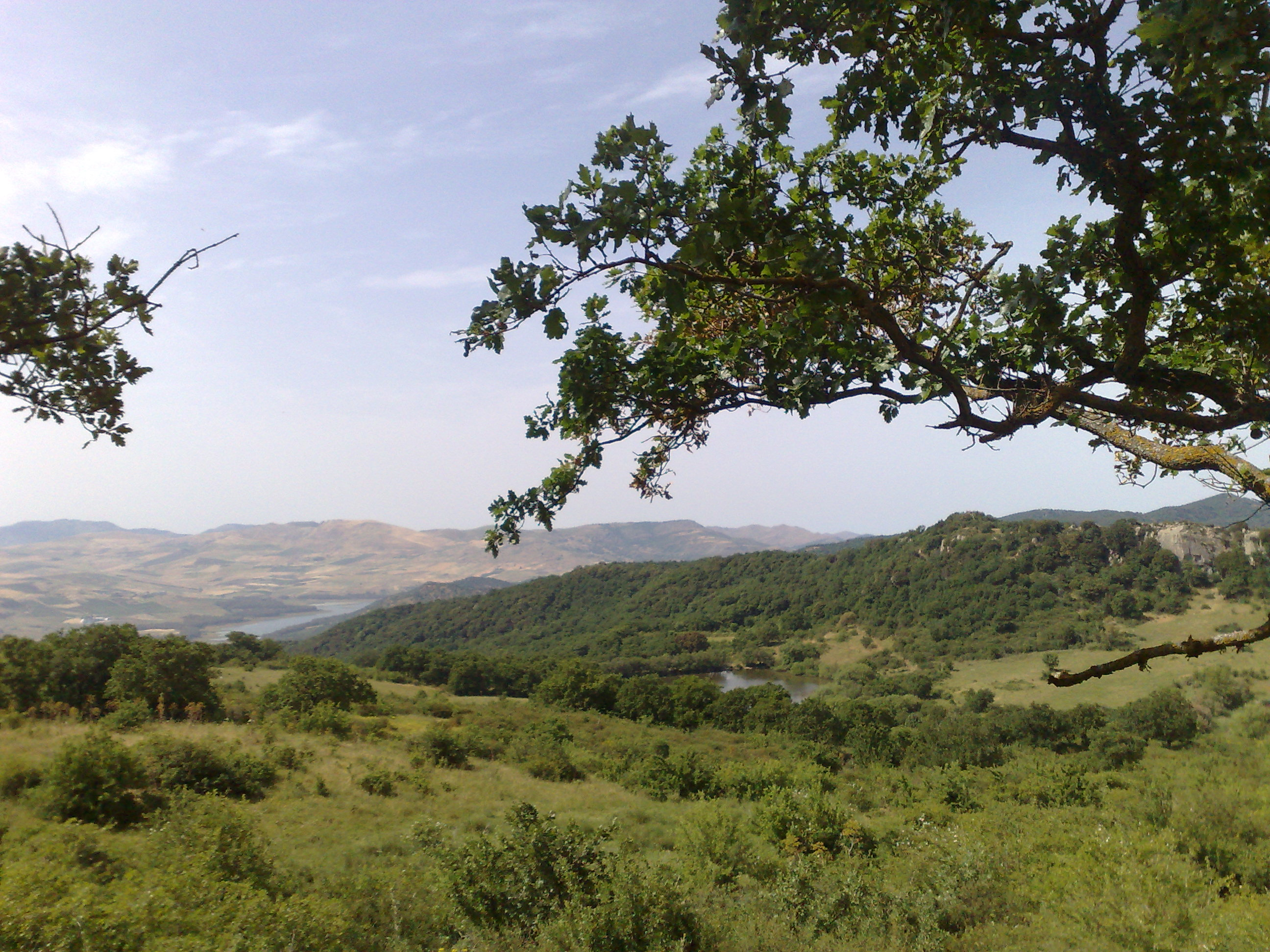 Ficuzza park (Palermo)